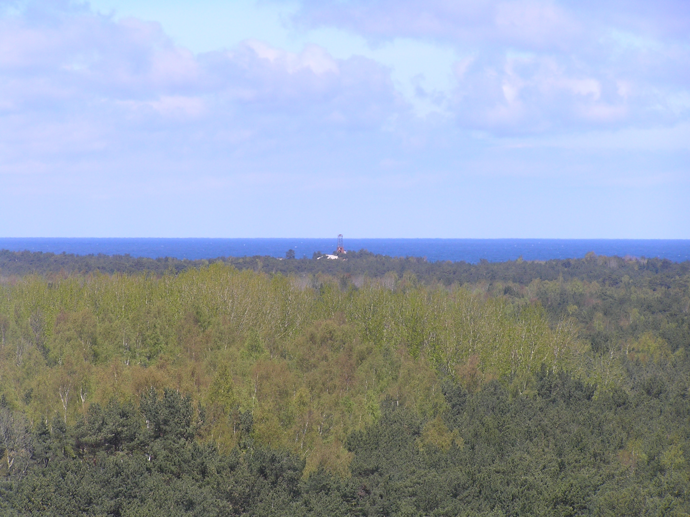 A view from the Hel lighthouse to the Góra Szwedów lighthouse